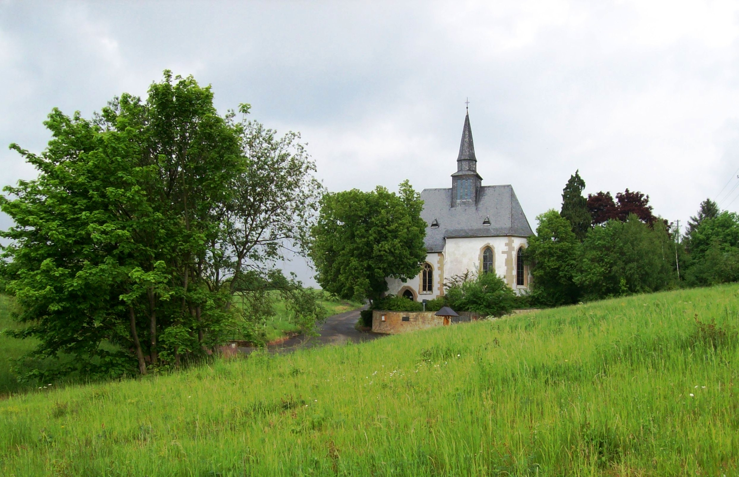 Church of Eckweiler